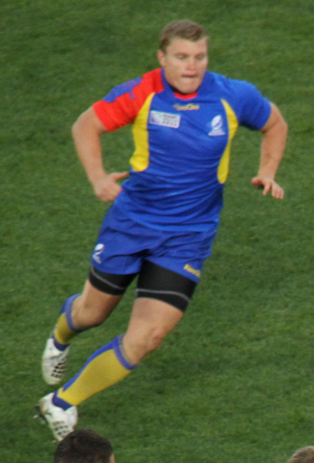 Romanian rugby union player Bogdan Zebega during 2011 Rugby World Cup match against England.